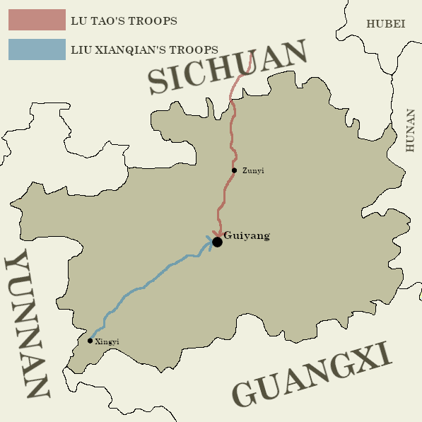 A map of approximate troop movements in the 1920 Minjiu Incident in Guizhou